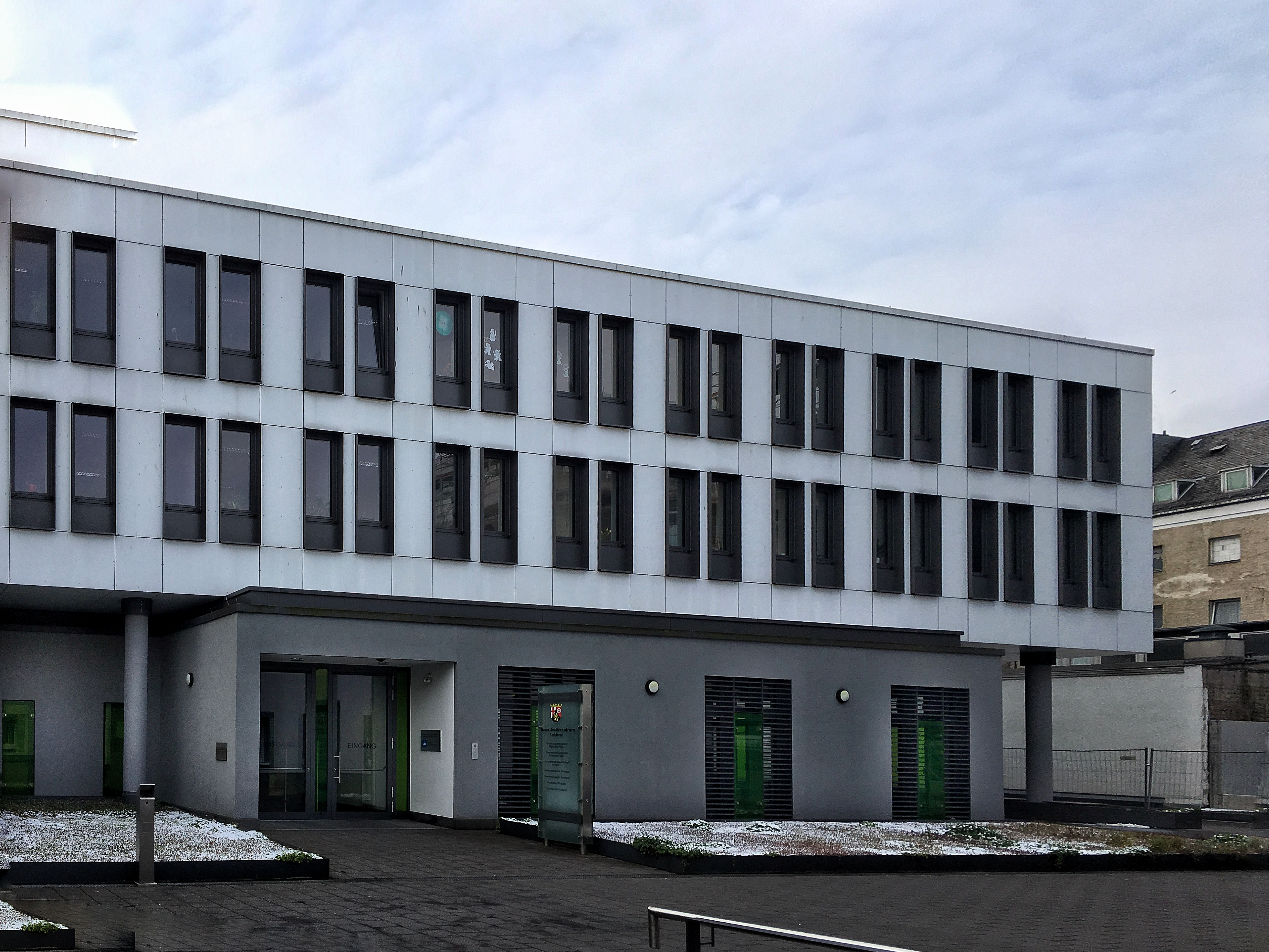 New Center of Judiciary Koblenz